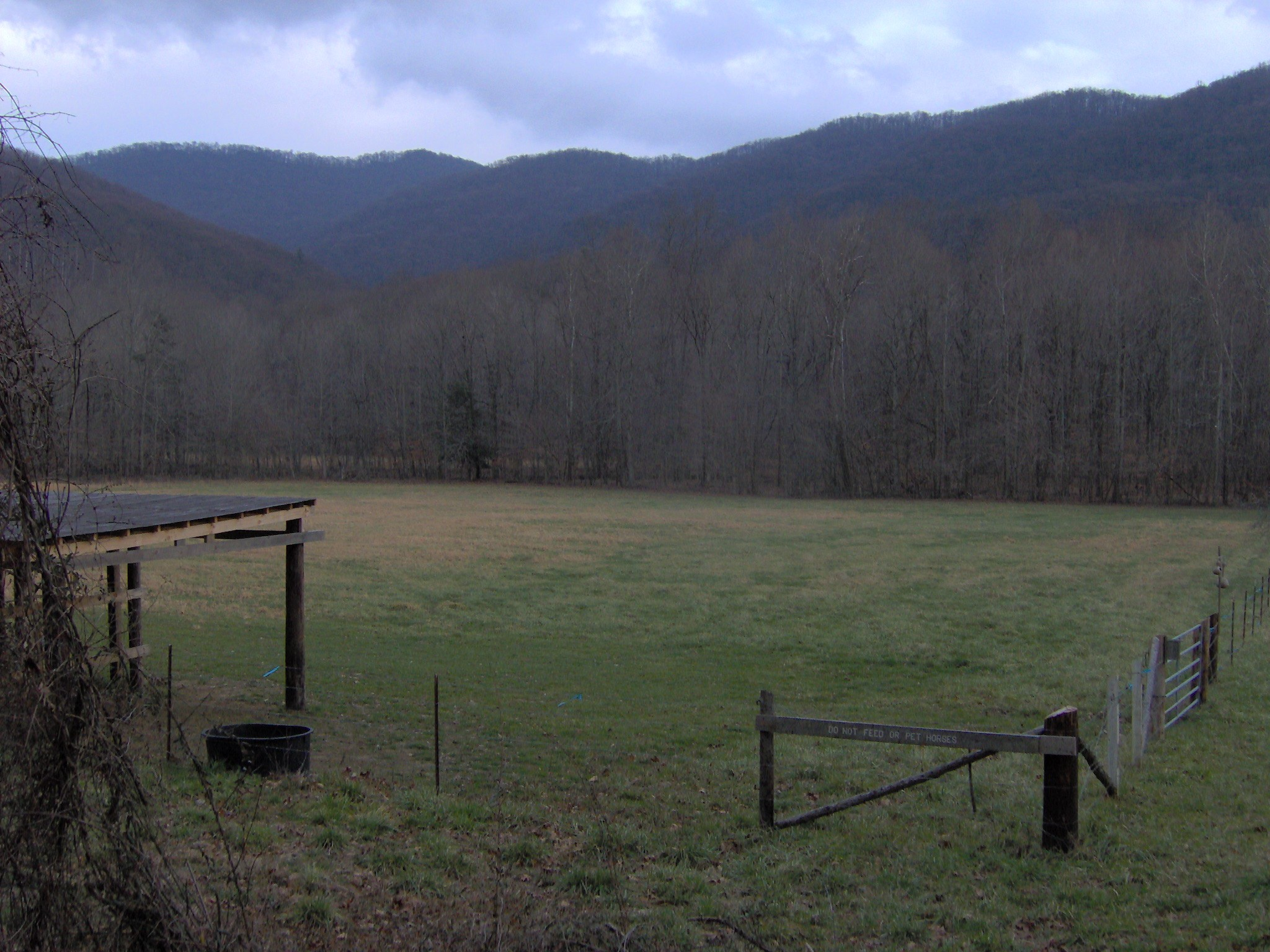 The Crab Orchard Mountains, looking east from the Flat Fork Valley at Frozen Head State Park in the Cumberland Mountains of Tennessee, in the southeastern United States. Part of Chimney Top Mountain is left of center. This view is from Flat Fork Road, near the park entrance.